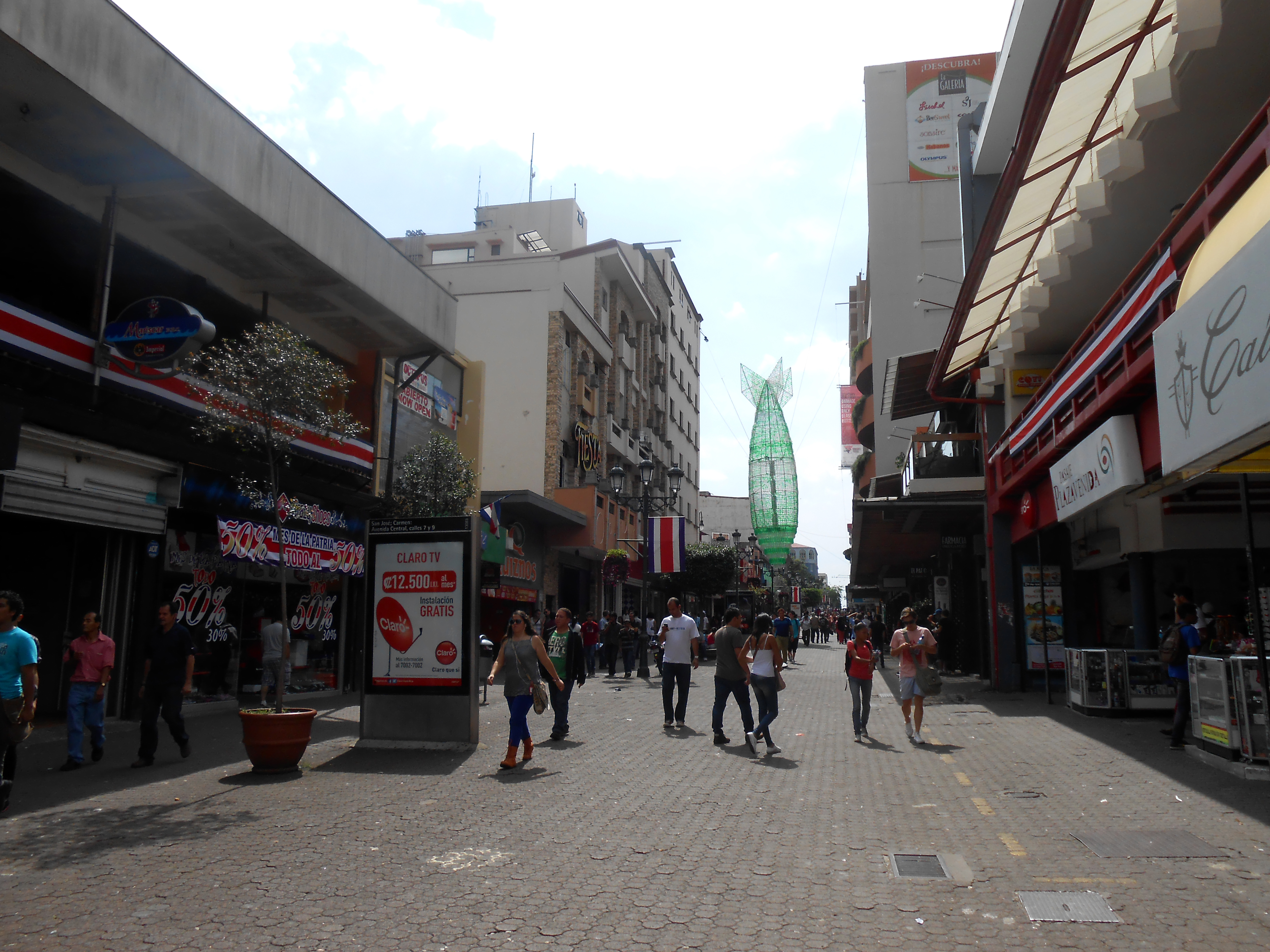 Avenida Central in San José, Costa Rica